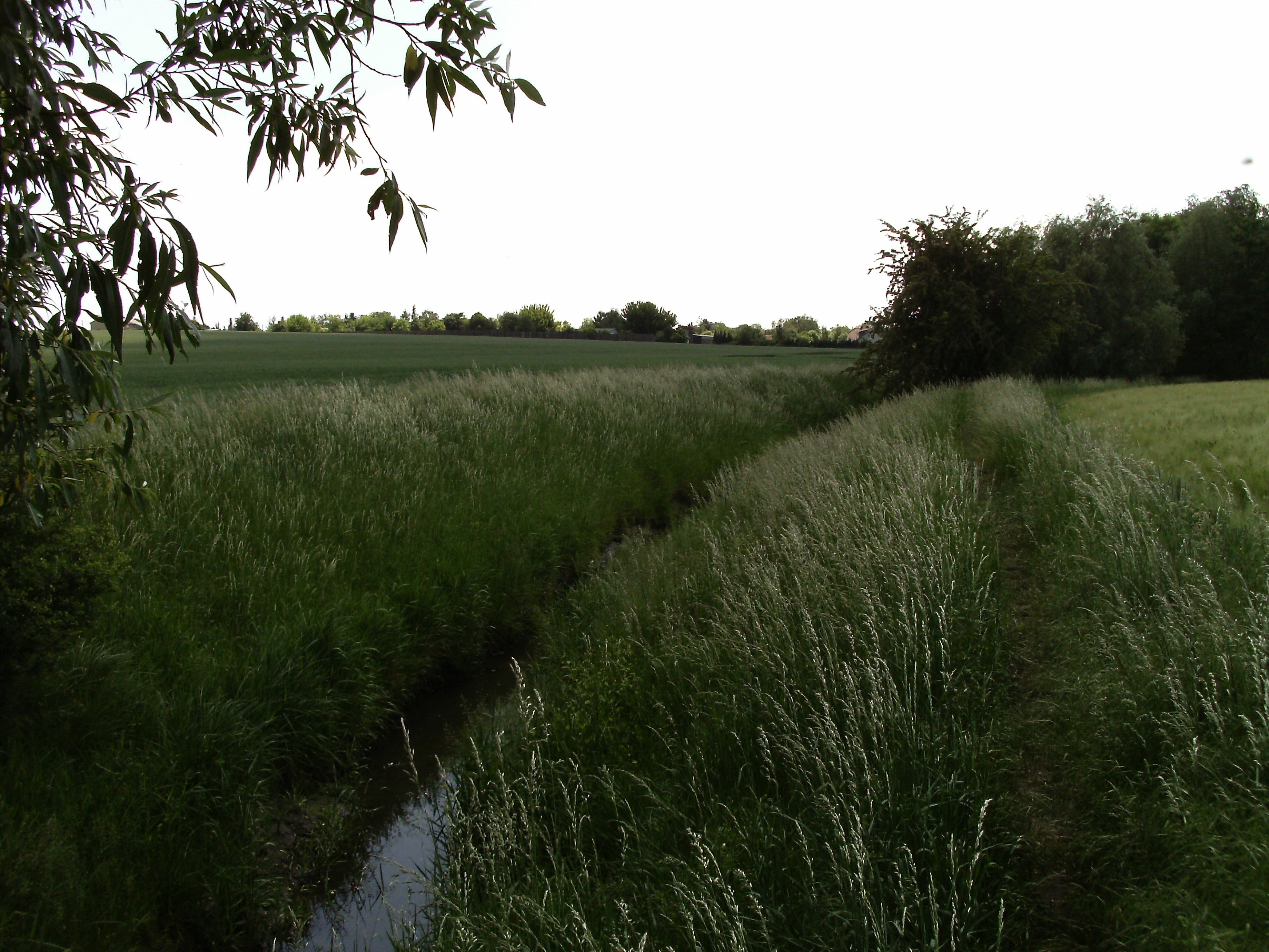 Reide stream on the outskirts of Halle (Saale) between Stichelsdorf and Sagisdorf